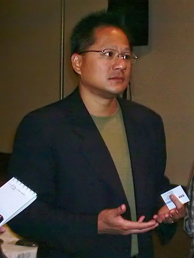 Jensen Huang, Founder of nVidia.